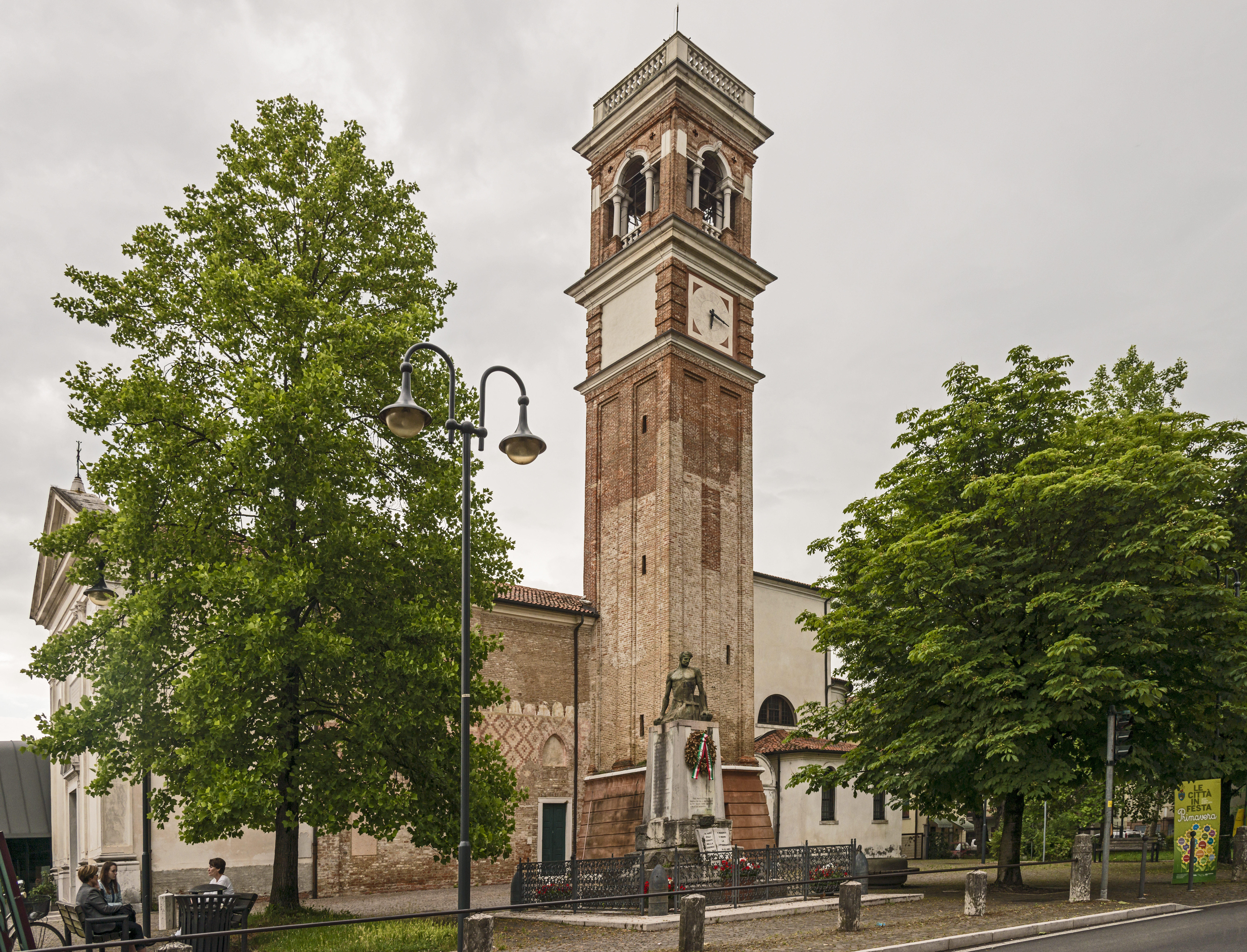 Church Maria Immacolata e San Vigilio - War Monument in Zelarino